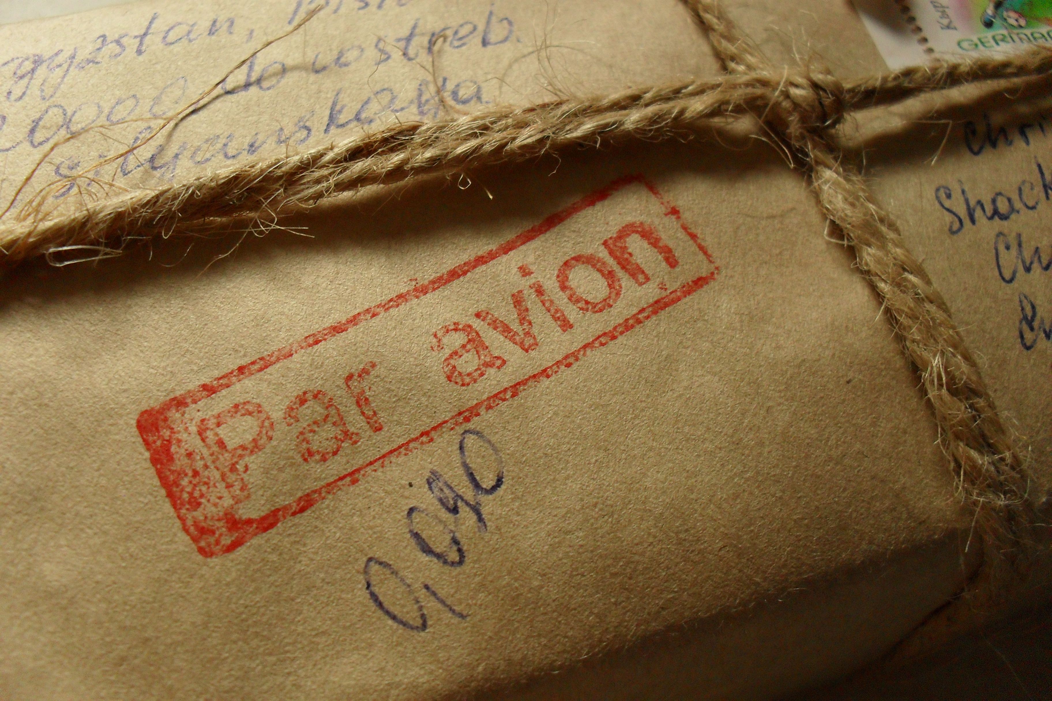 Parcel with par avion handstamp.